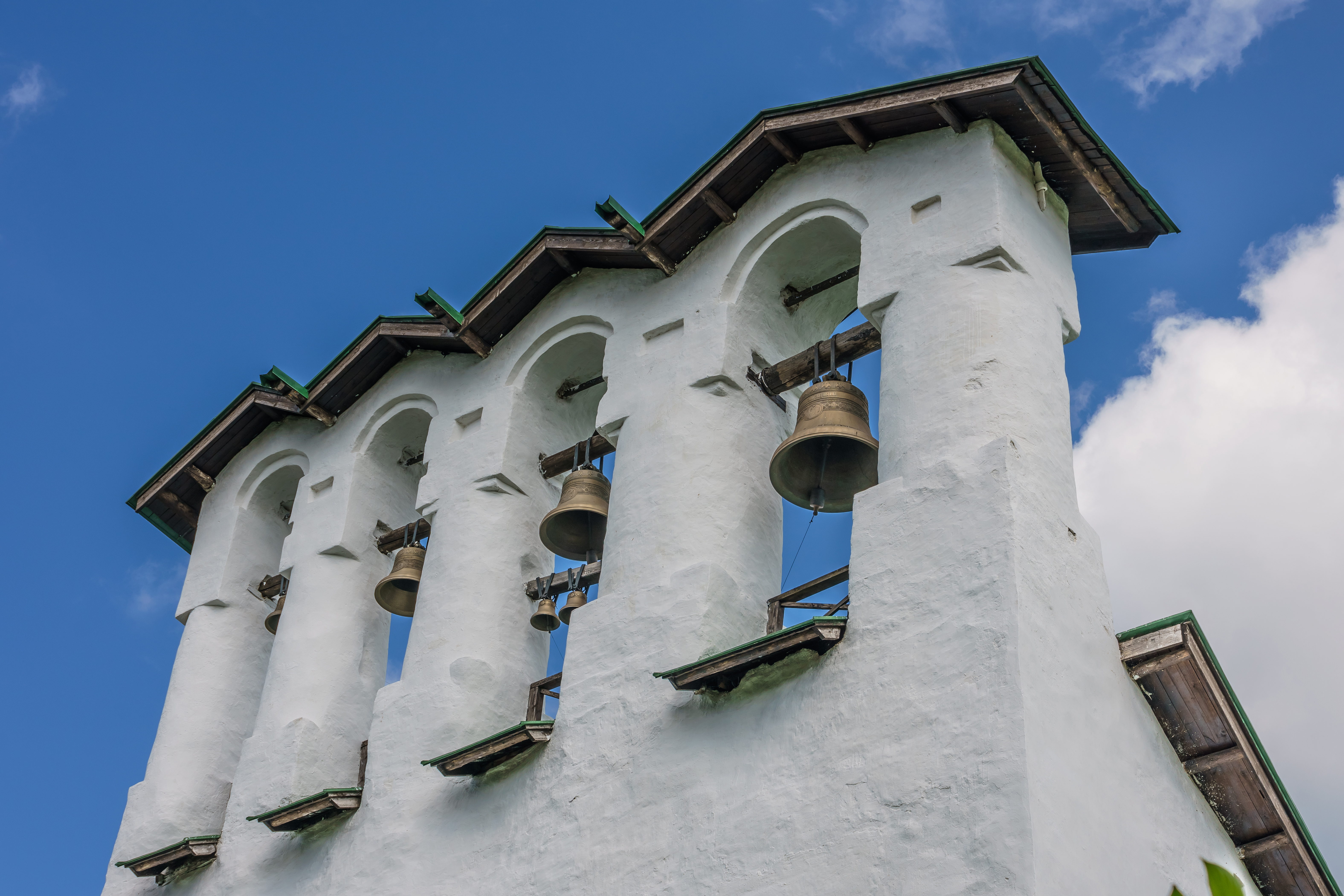 Epiphany Church «at Zapskovie» in Pskov, Russia